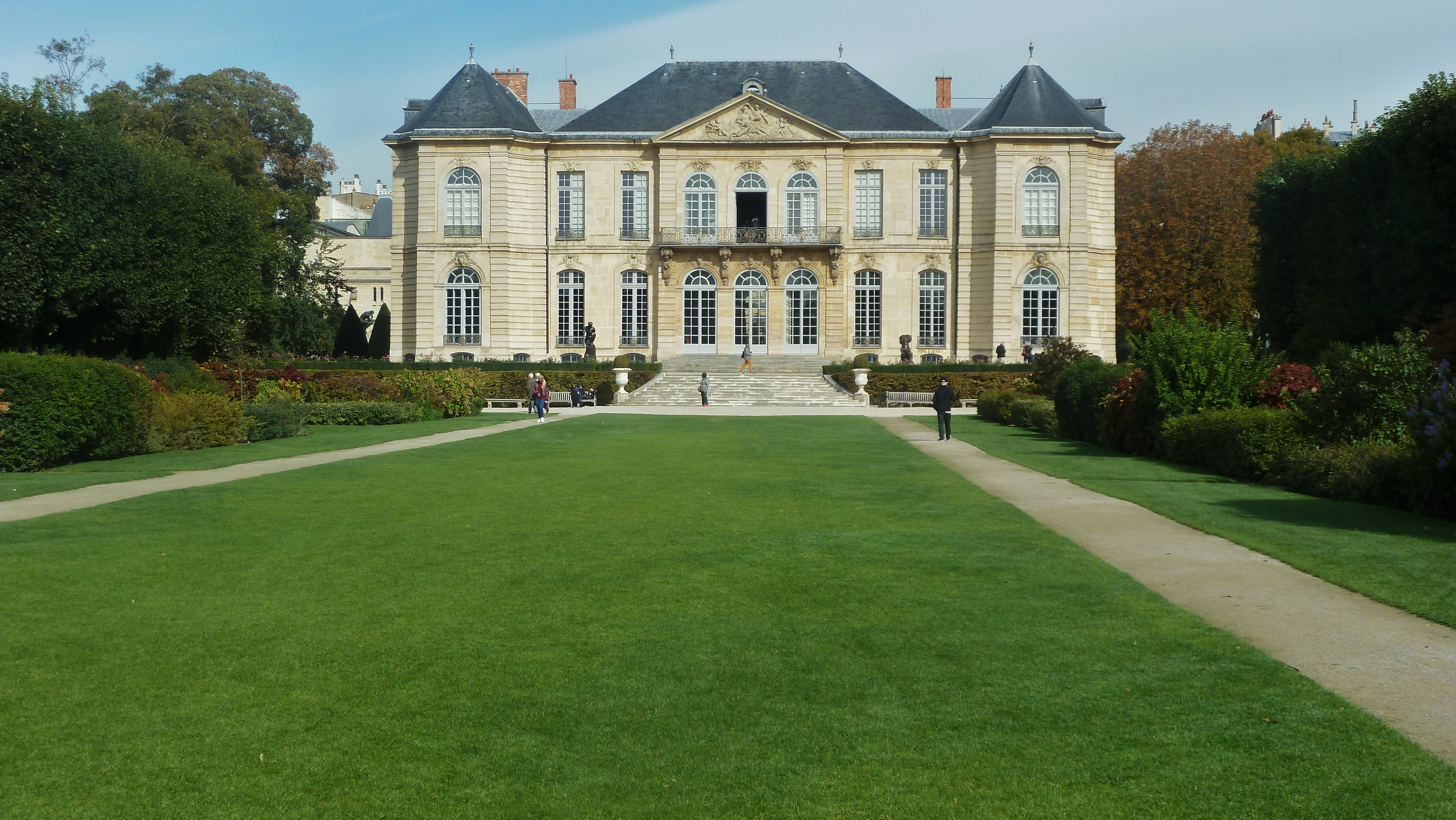 Musée Rodin in Paris